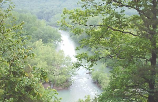 View of the Mulberry River with a canoe. ((Uploaders note: I believe this is in Arkansas. The other surrounding pictures were labeled as such, however this was only listed by river name. I am being bold here and assuming the state. If I am in error, please correct.))